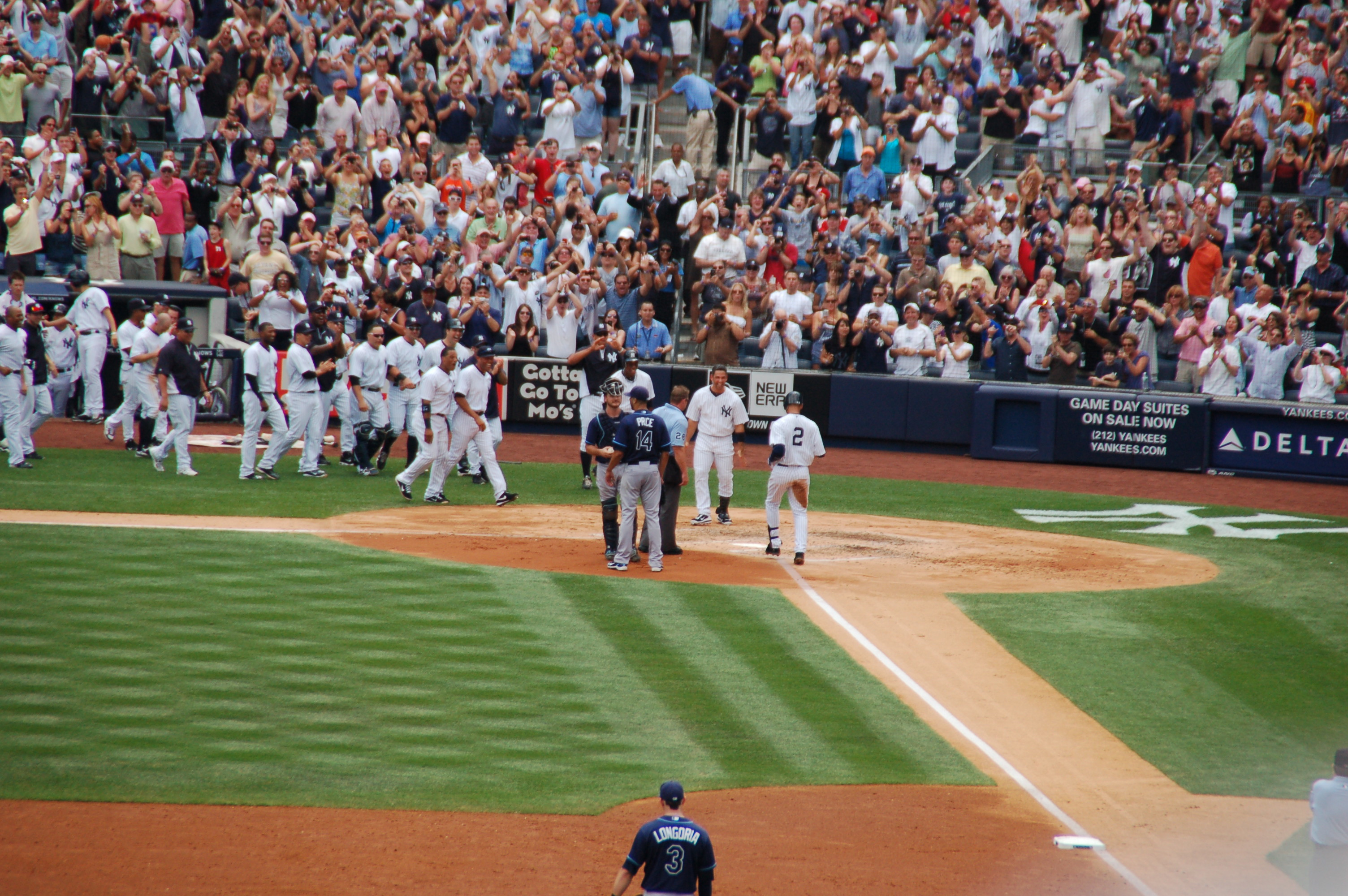 Derek Jeter's teammates watch him cross the plate after recording his 3000th hit. Photo courtesy of LawrenceFung, via Flickr.